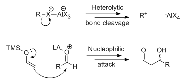 General Lewis acid catalysis